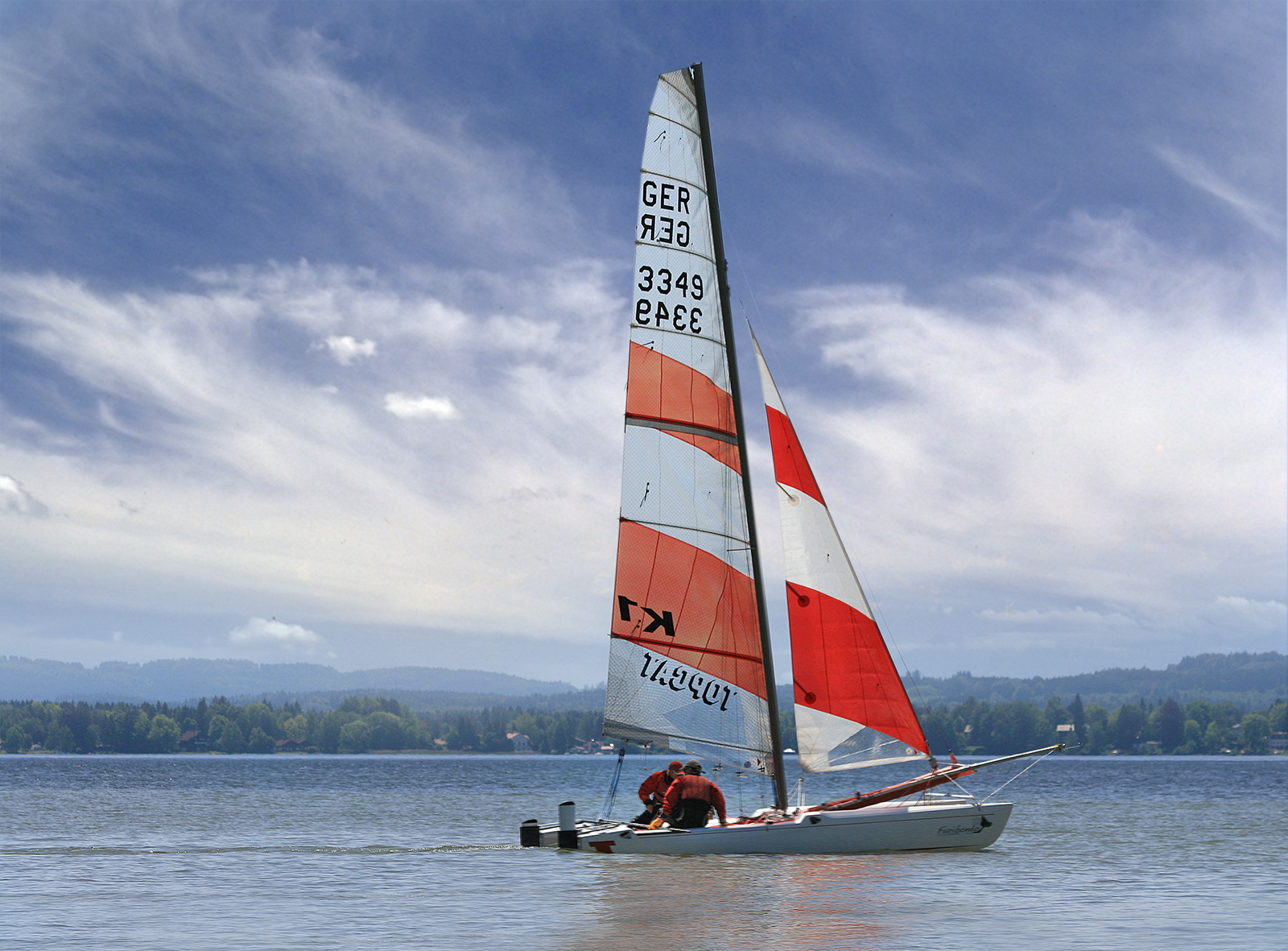 Description: A sailing boat at the Starnberger See, Bavaria, Germany.